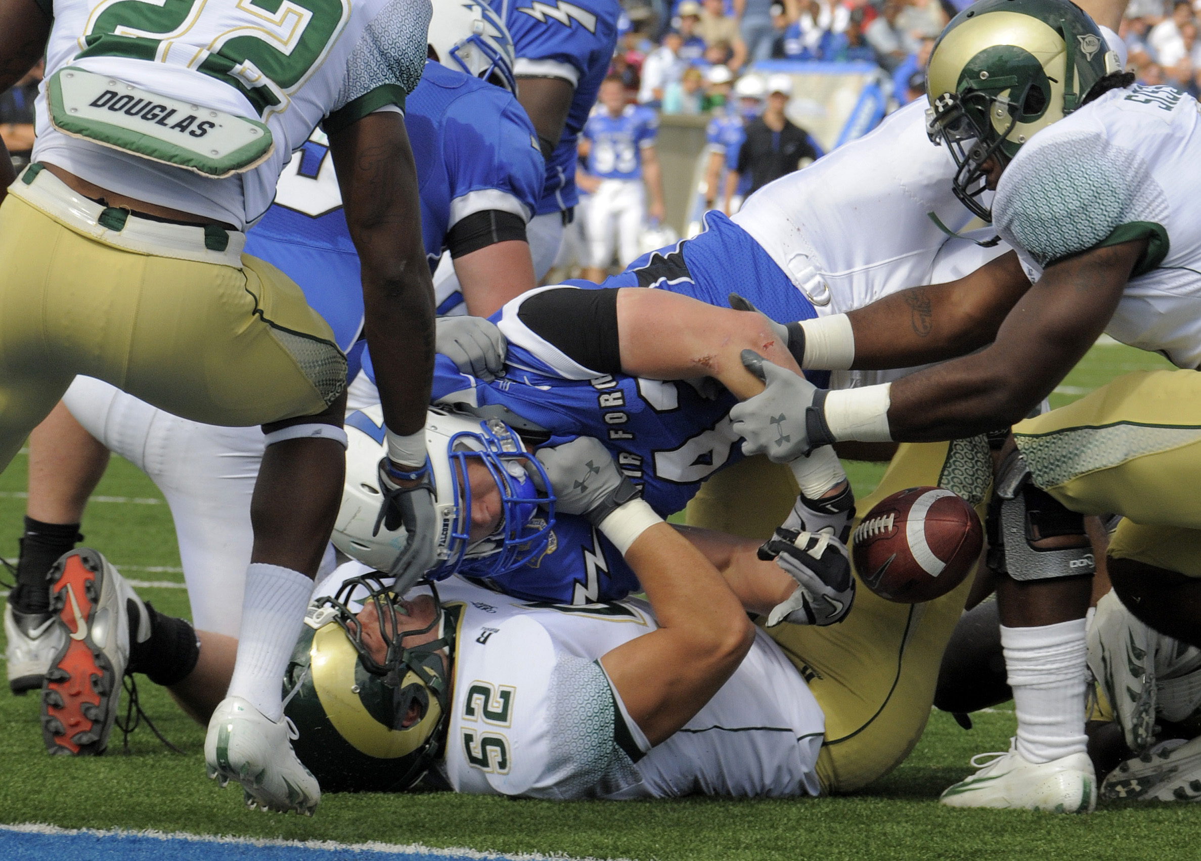 Falcons fullback Jared Tew loses the football during the Air Force-Colorado State game at Falcon Stadium. Air Force won 49-27.